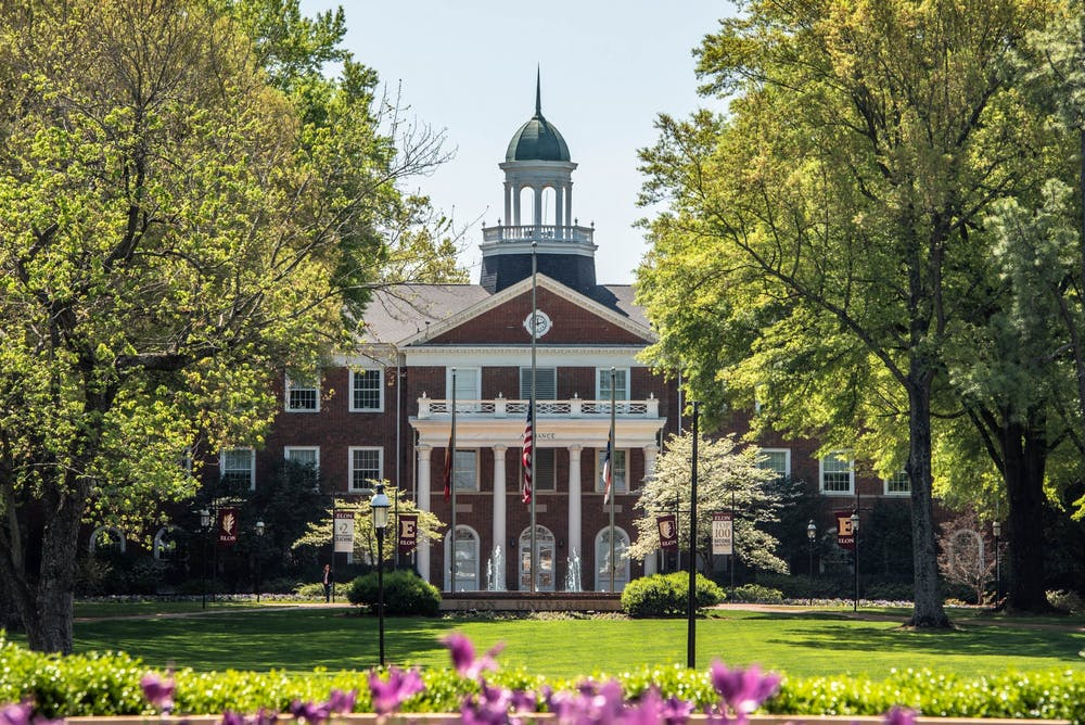 Picture of Elon Alamance